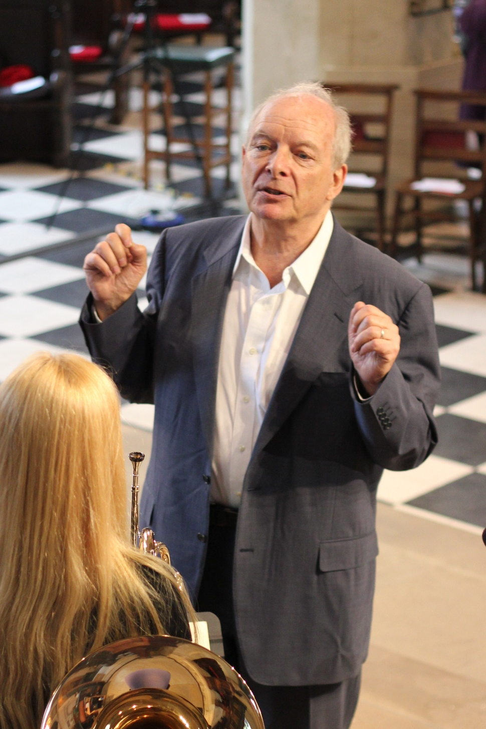 Christopher Hogwood at a rehearsal for a Gresham College lecture in 2014.